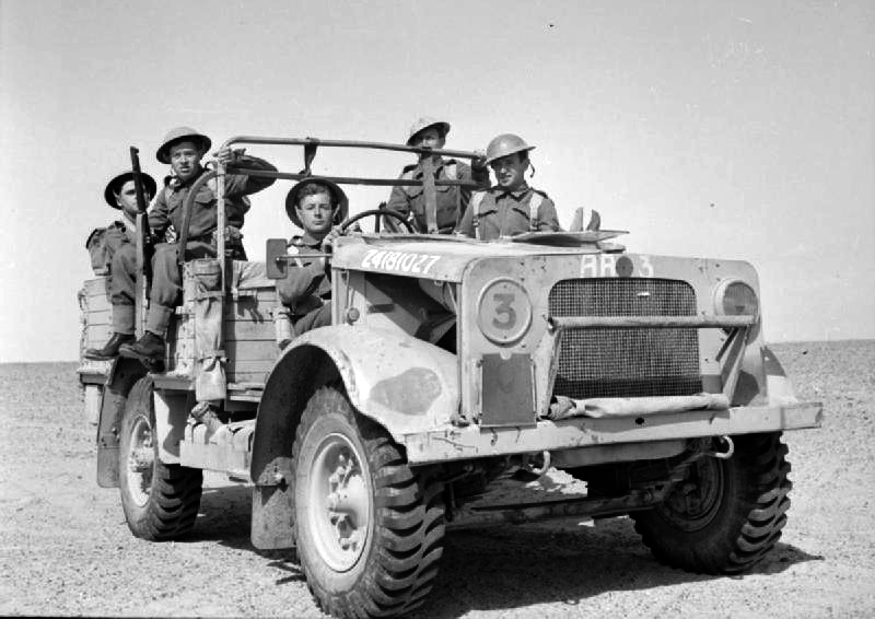 The British Army in North Africa 1942 Rhodesian troops of the 60th King's Royal Rifles in a Bedford MWD 15cwt truck in the Western Desert, 12 May 1942.